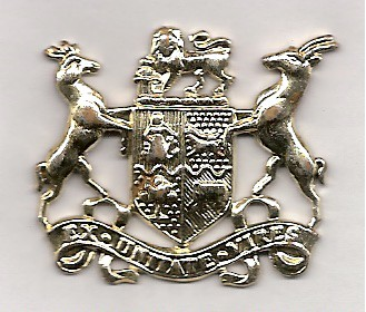 Badge of rank of a Warrant Officer Class 2 in the South African/Union Defence Force 1950-2002